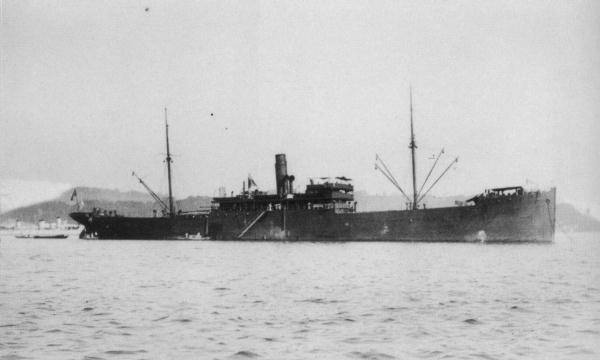 IJN transport ROZAN at Sasebo Naval Base, ex-German ship Ellen Rickmaers.